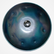 PANArt Hang, first generation